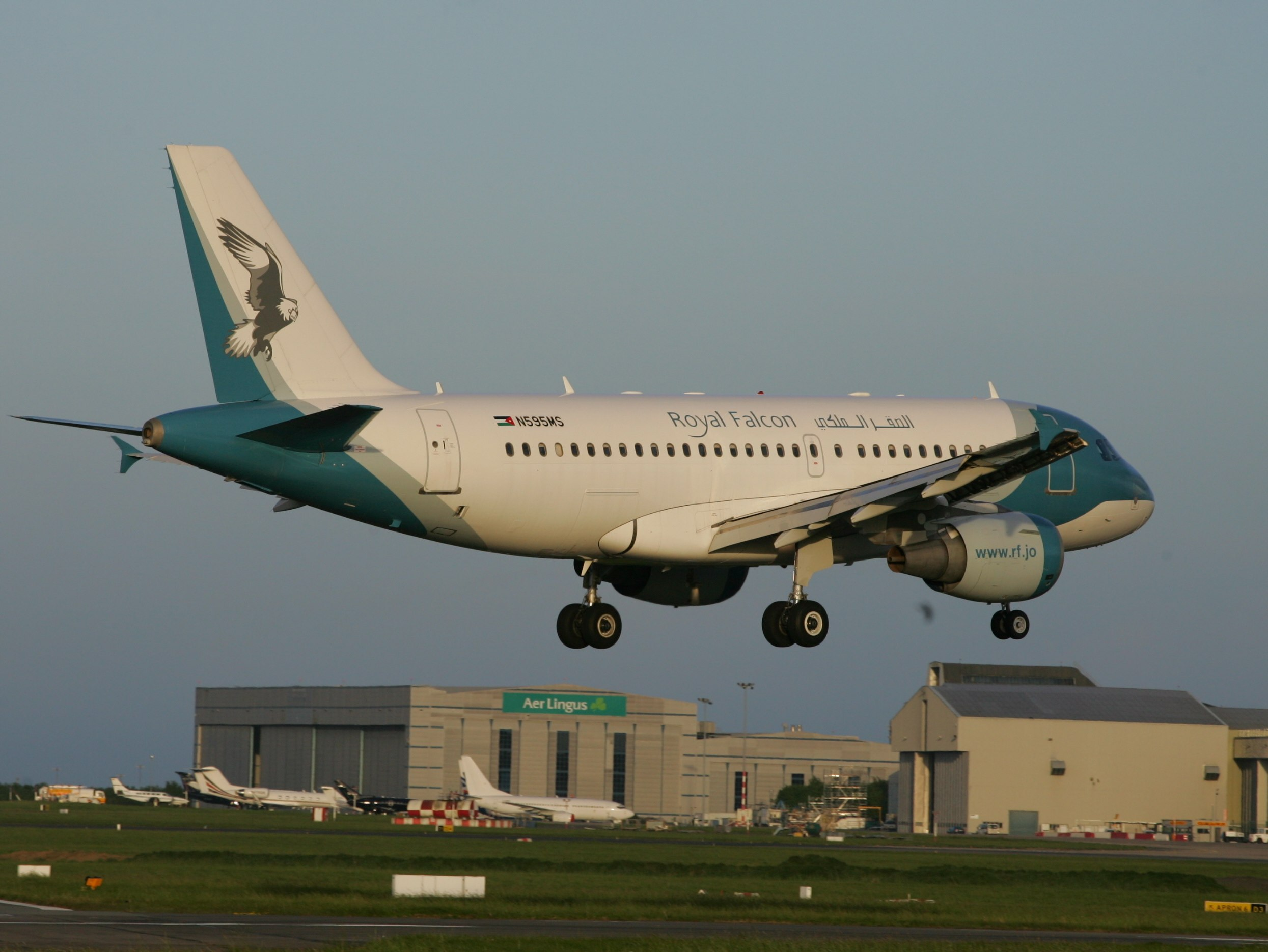 N595MS A319 Royal Falcon